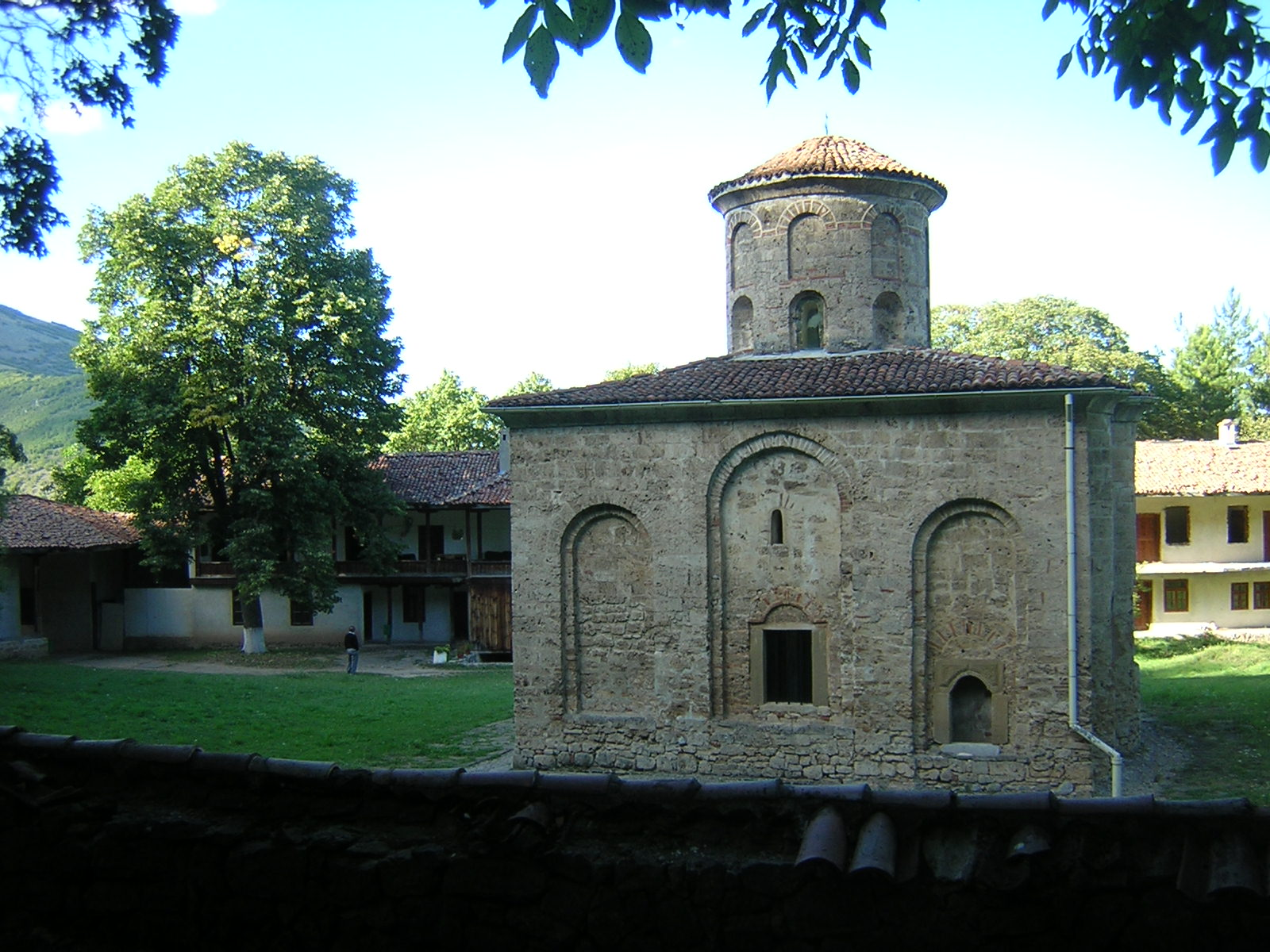 Zemen monastery church